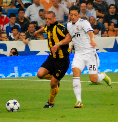 Matías Aguirregaray and Mesut Özil fighting for the ball on a friendly game between Peñarol and Real Madrid